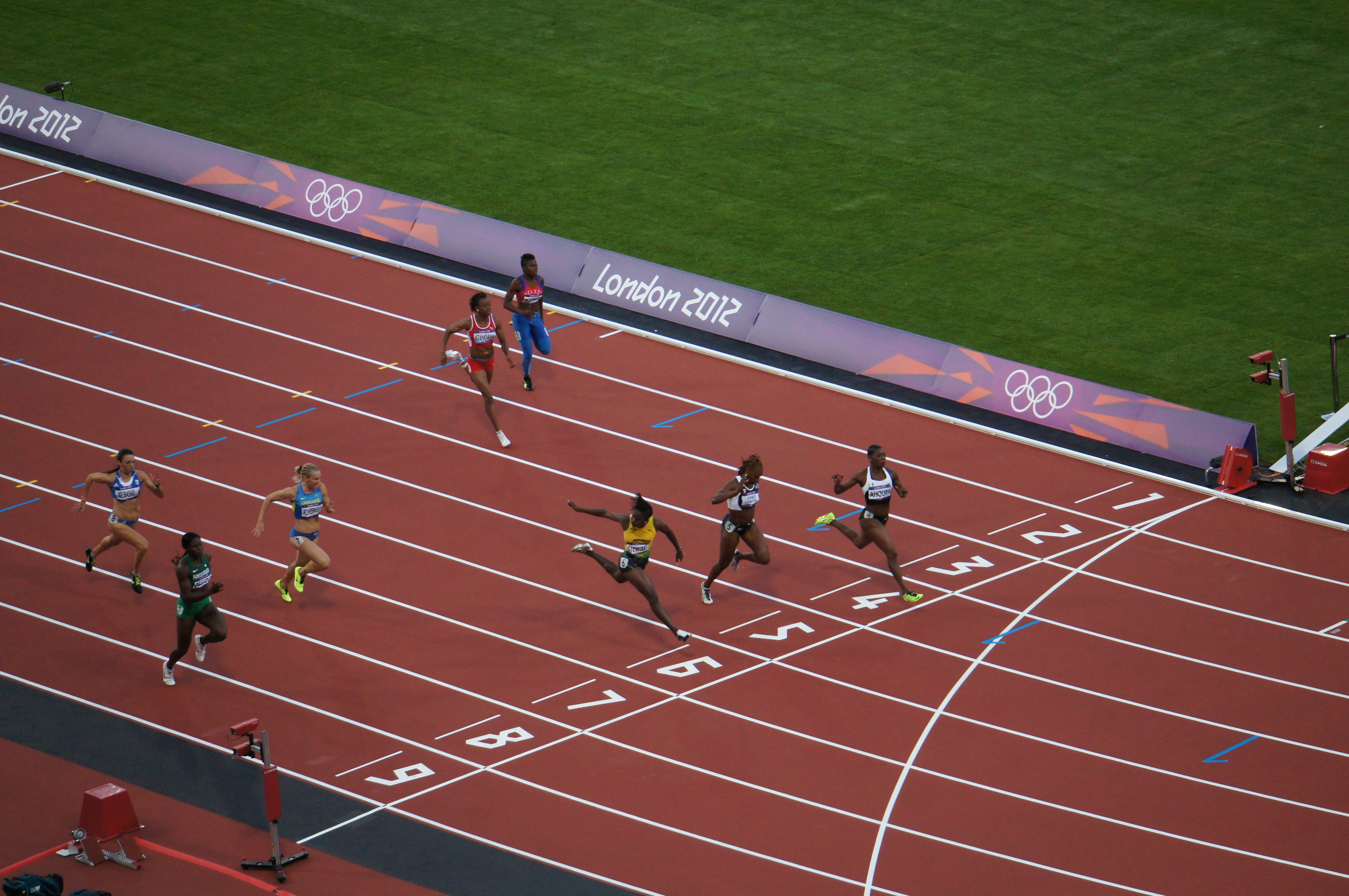 London 2012 Olympics Athletics